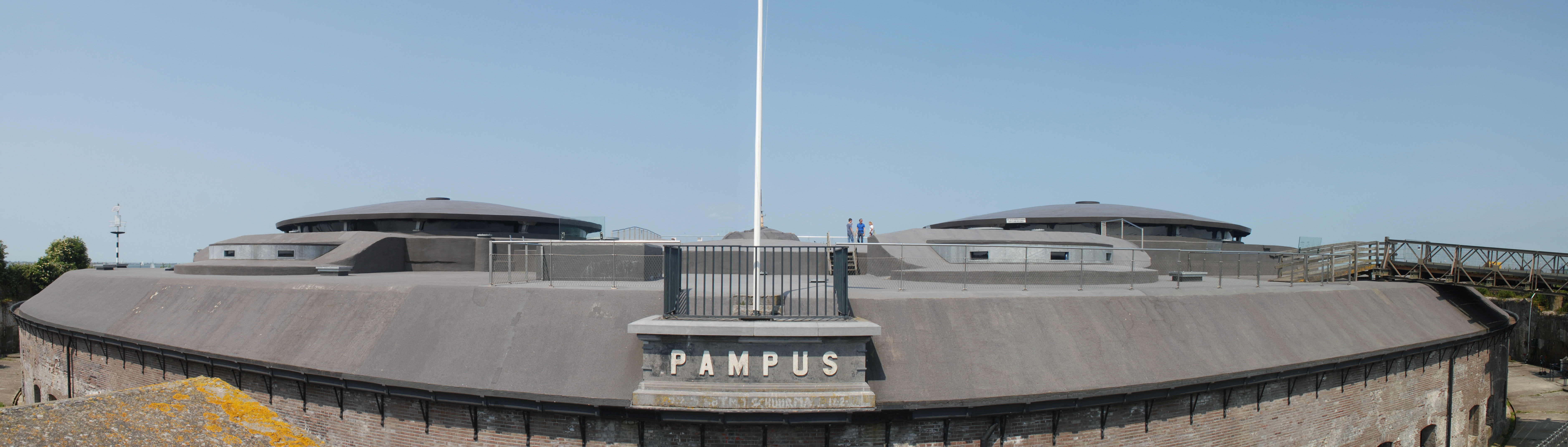 This is a panorama made from several photo's taken on a visit to the fort.